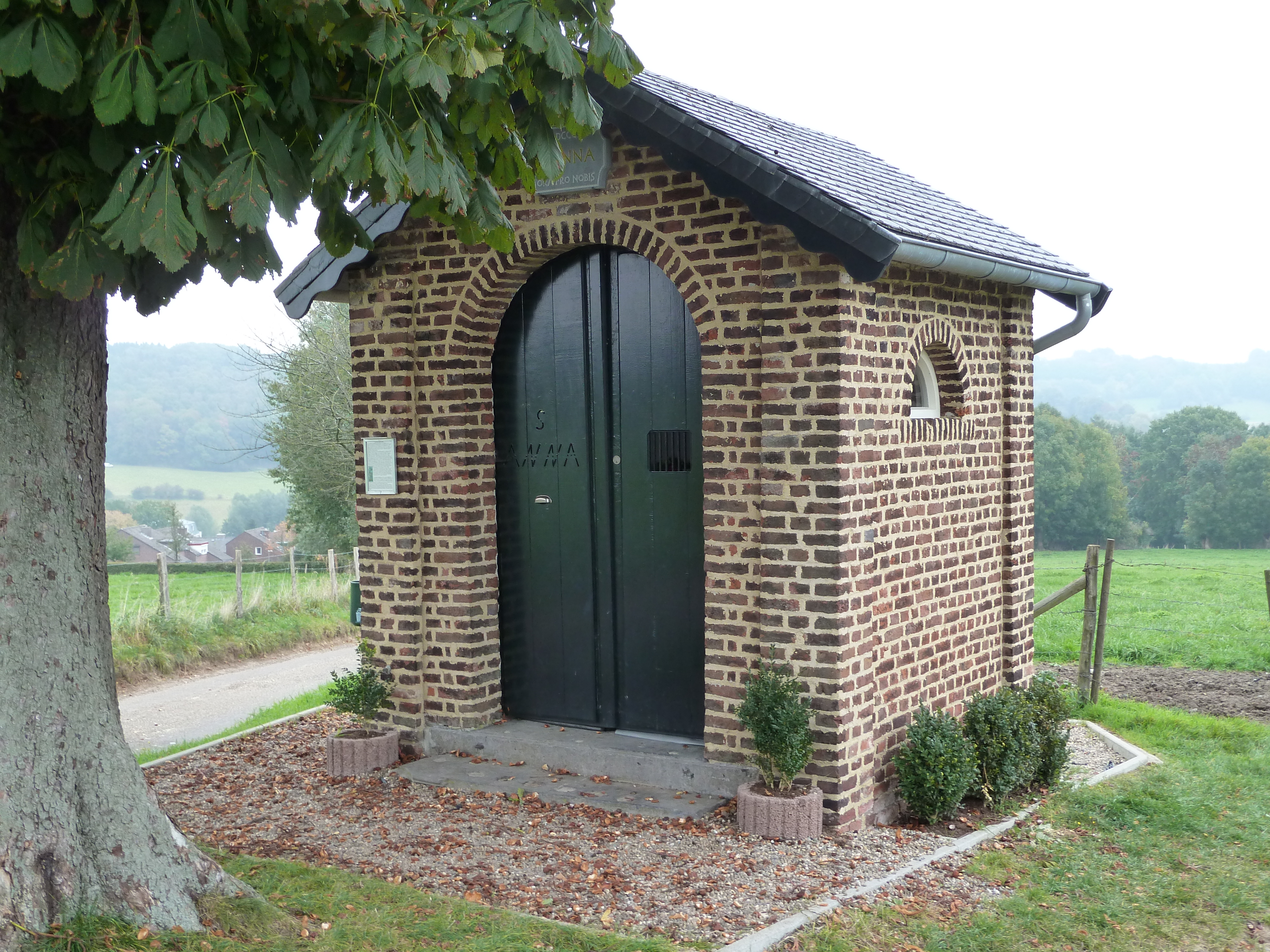 Sint-Annakapel, Slenaken-Schilberg, Limburg, the Netherlands